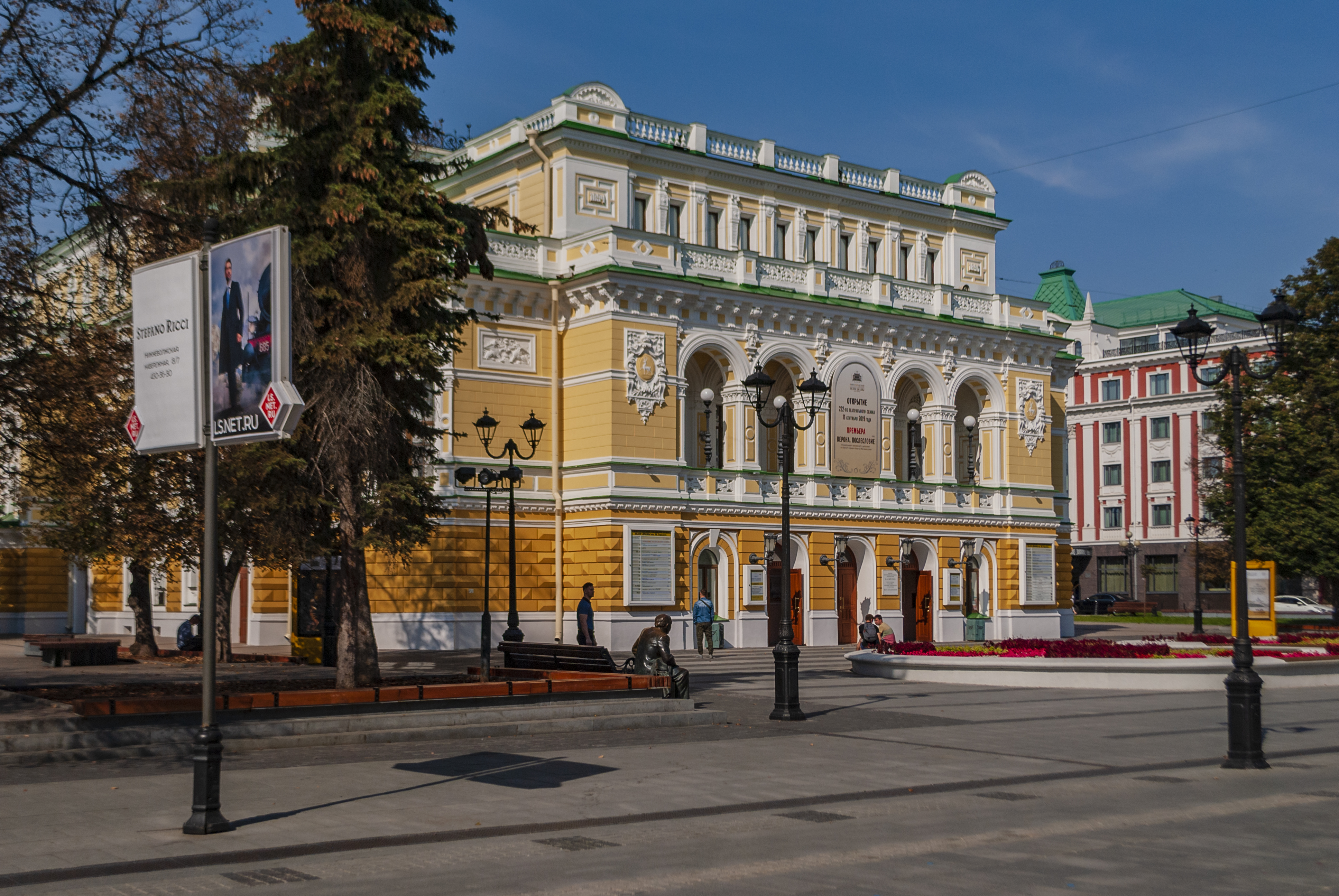 Nizhny Novgorod Drama Theater on Bolshaya Pokrovskaya Street